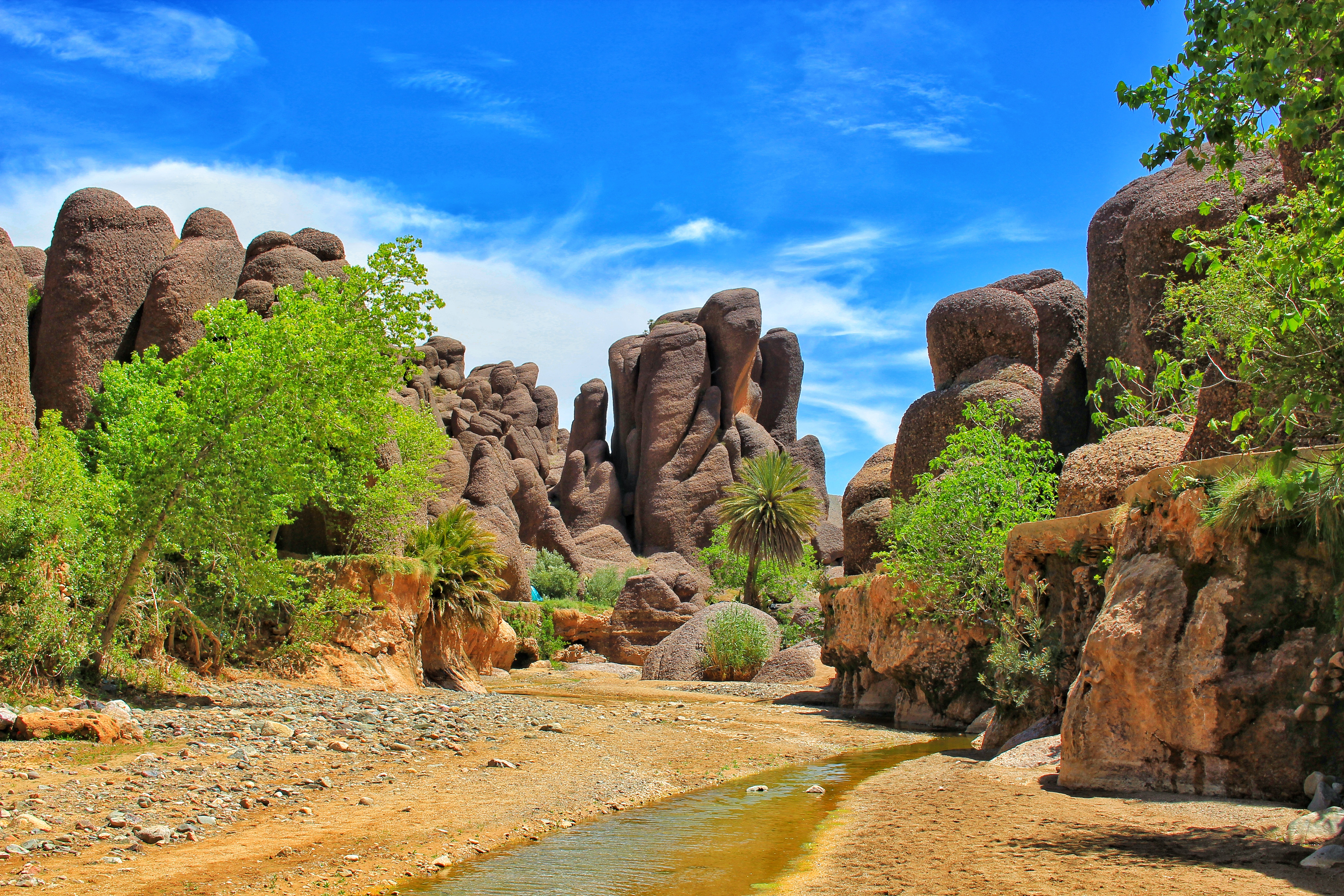 Landscape view of the volcanic rock formations in the Tislit Gorges in Taliouine, Sirwa mountains, southern Morocco.